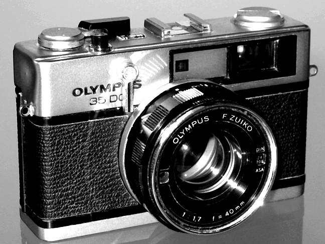 Olympus 35 DC 1971